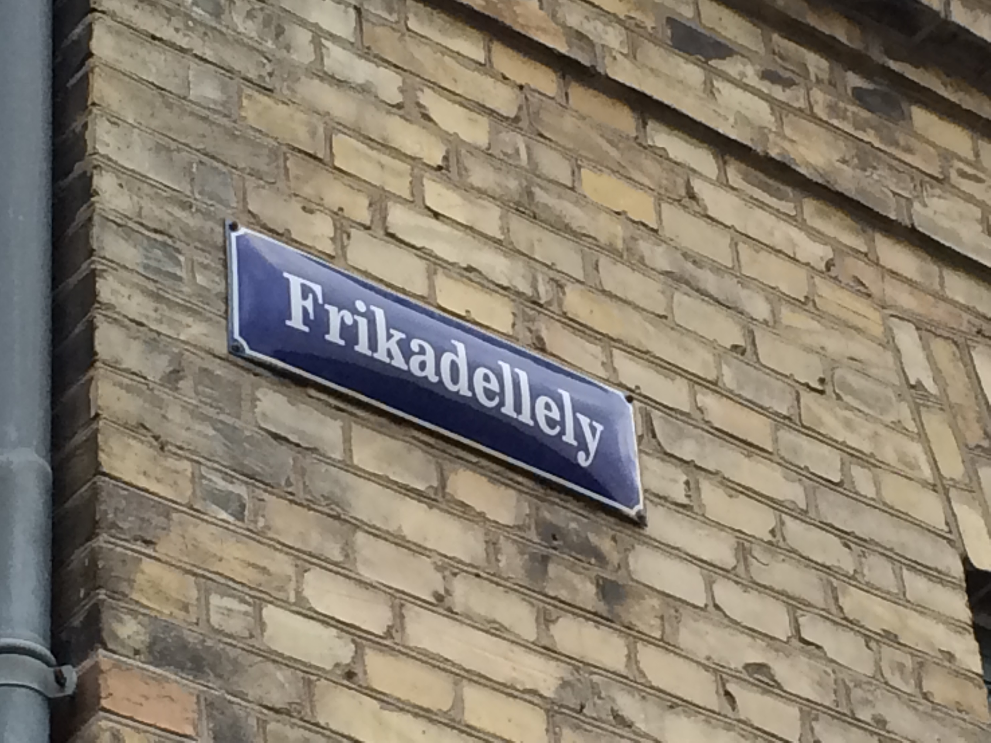 Frikadellely is the unofficial name of a part of the street Tagensvej in Copenhagen, Denmark